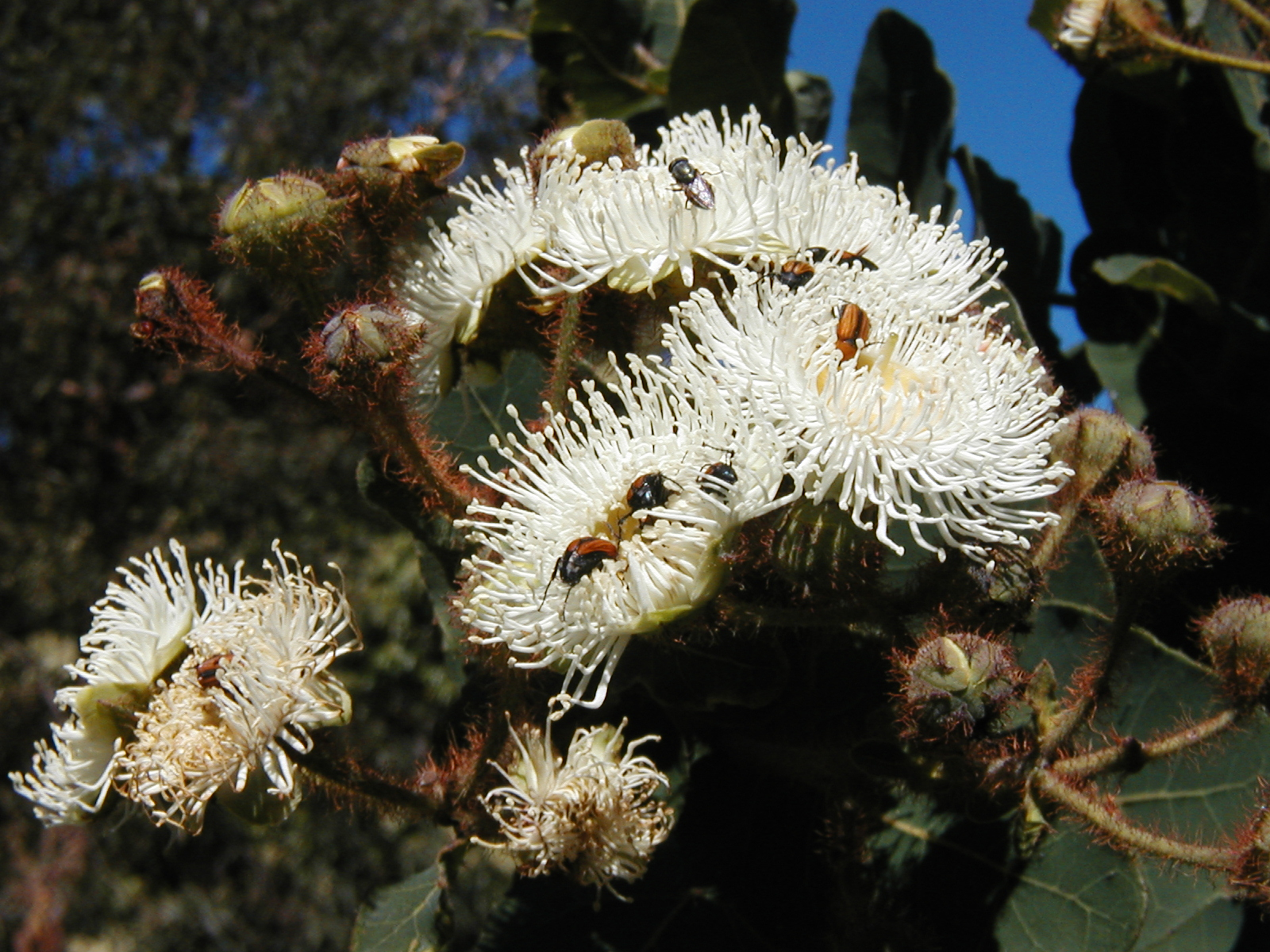 Beetles on a Angophora hispida flower head, Oatley Park in Oatley, NSW